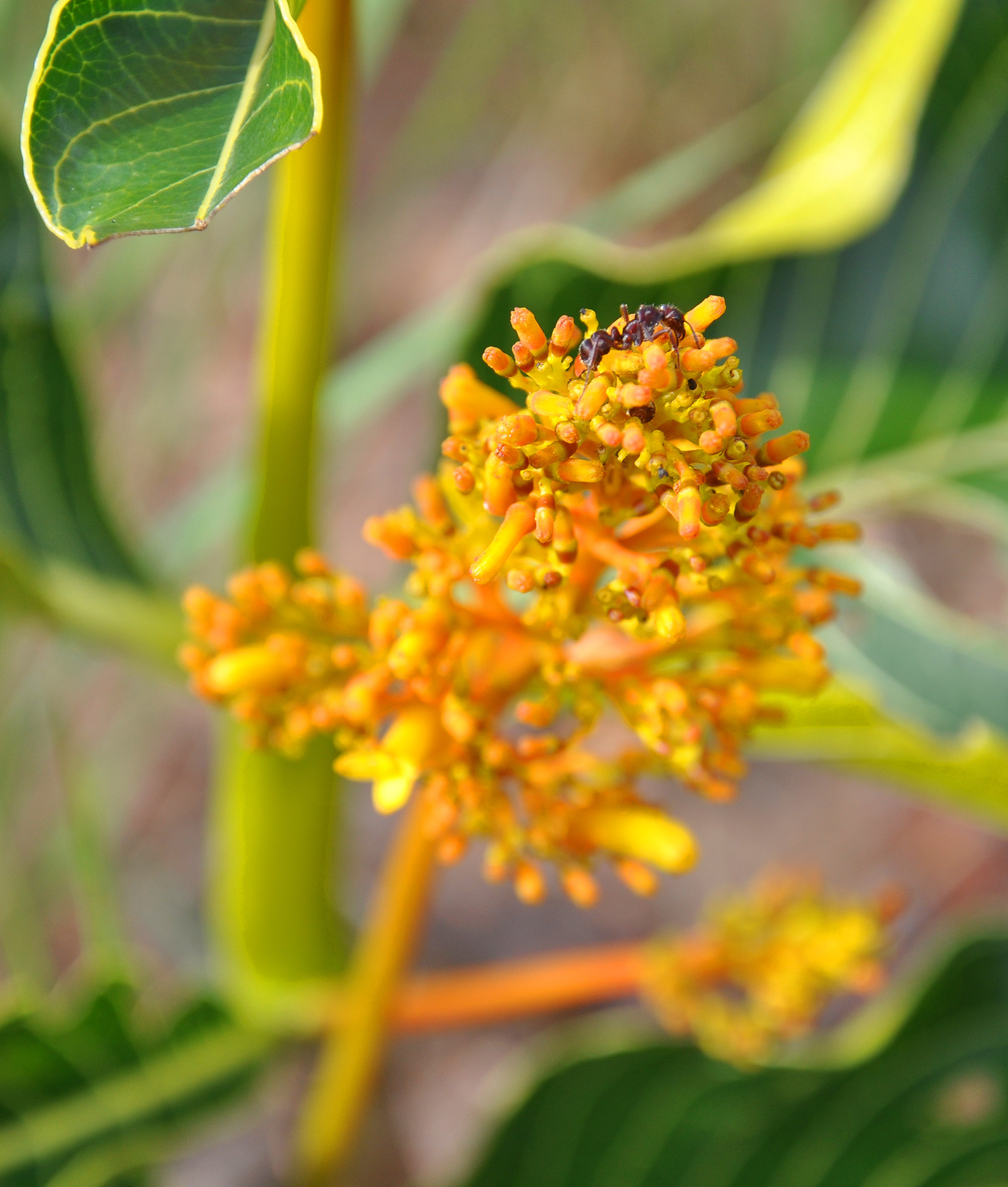 Palicourea rigida - Venezuela - Gran Sabana